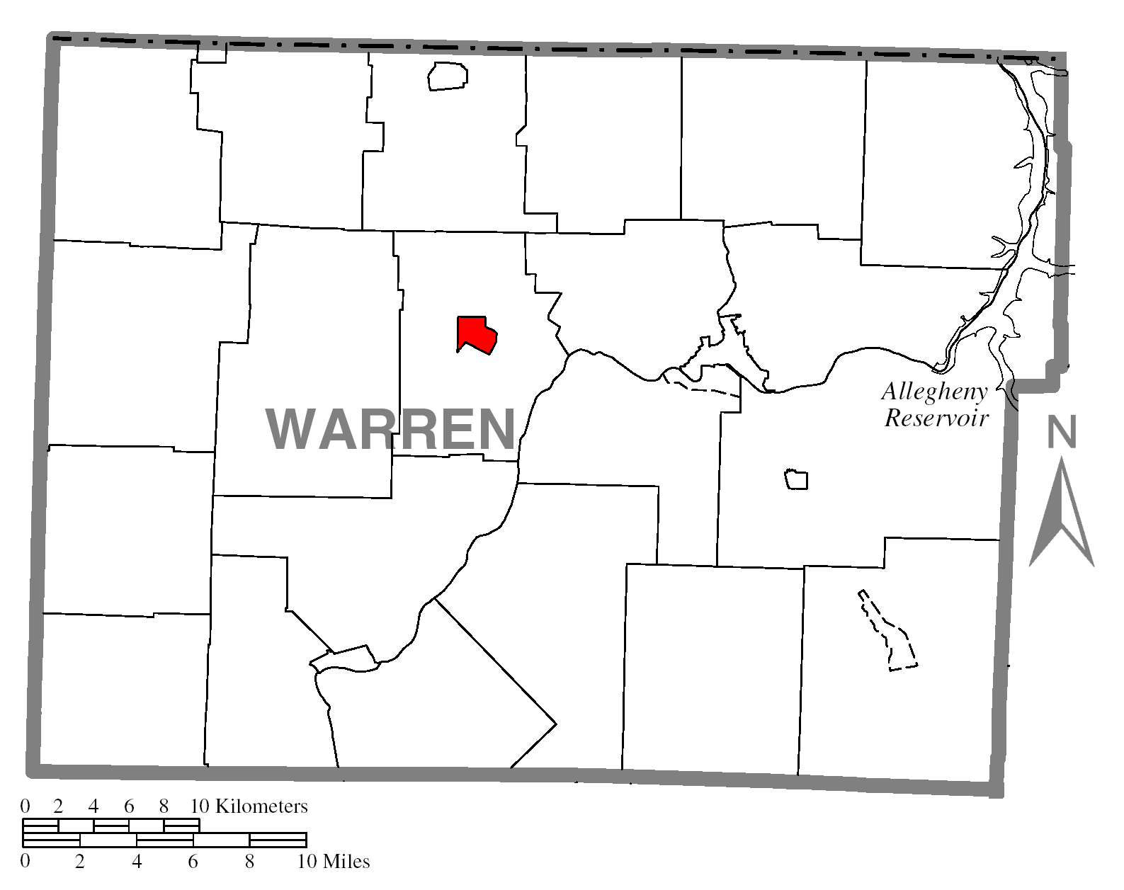 Map of Warren County higlighting Youngsville.